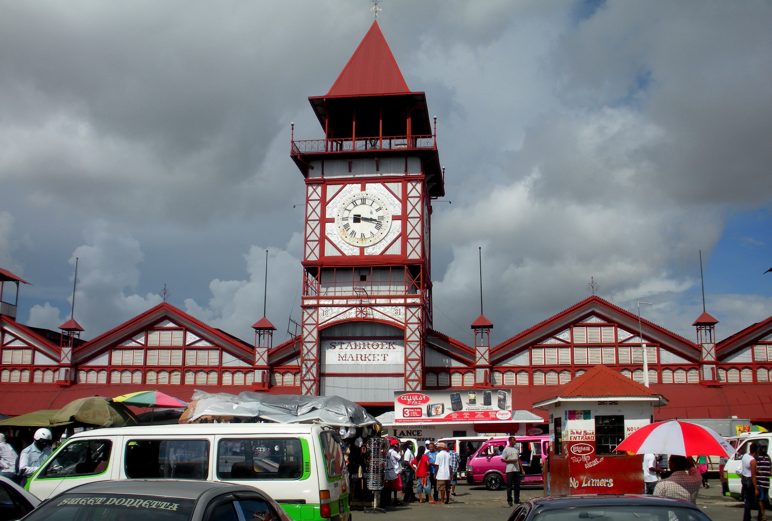 The iconic Stabroek Market in Georgetown, Guyana, Georgetown (Guyana).